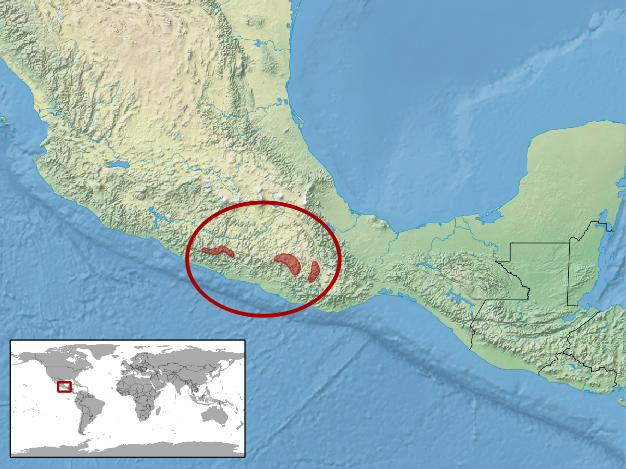 geographic distribution of Mesaspis gadovii (Native: Mexico)